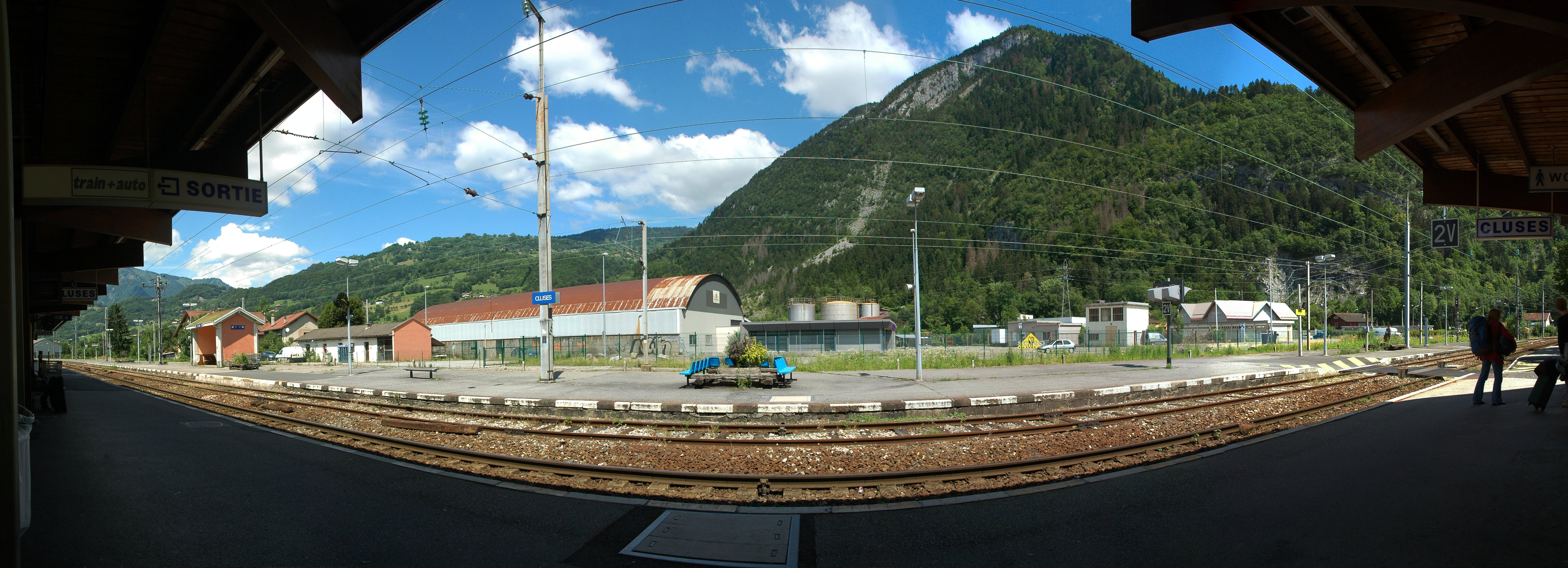 The train station of Cluses.